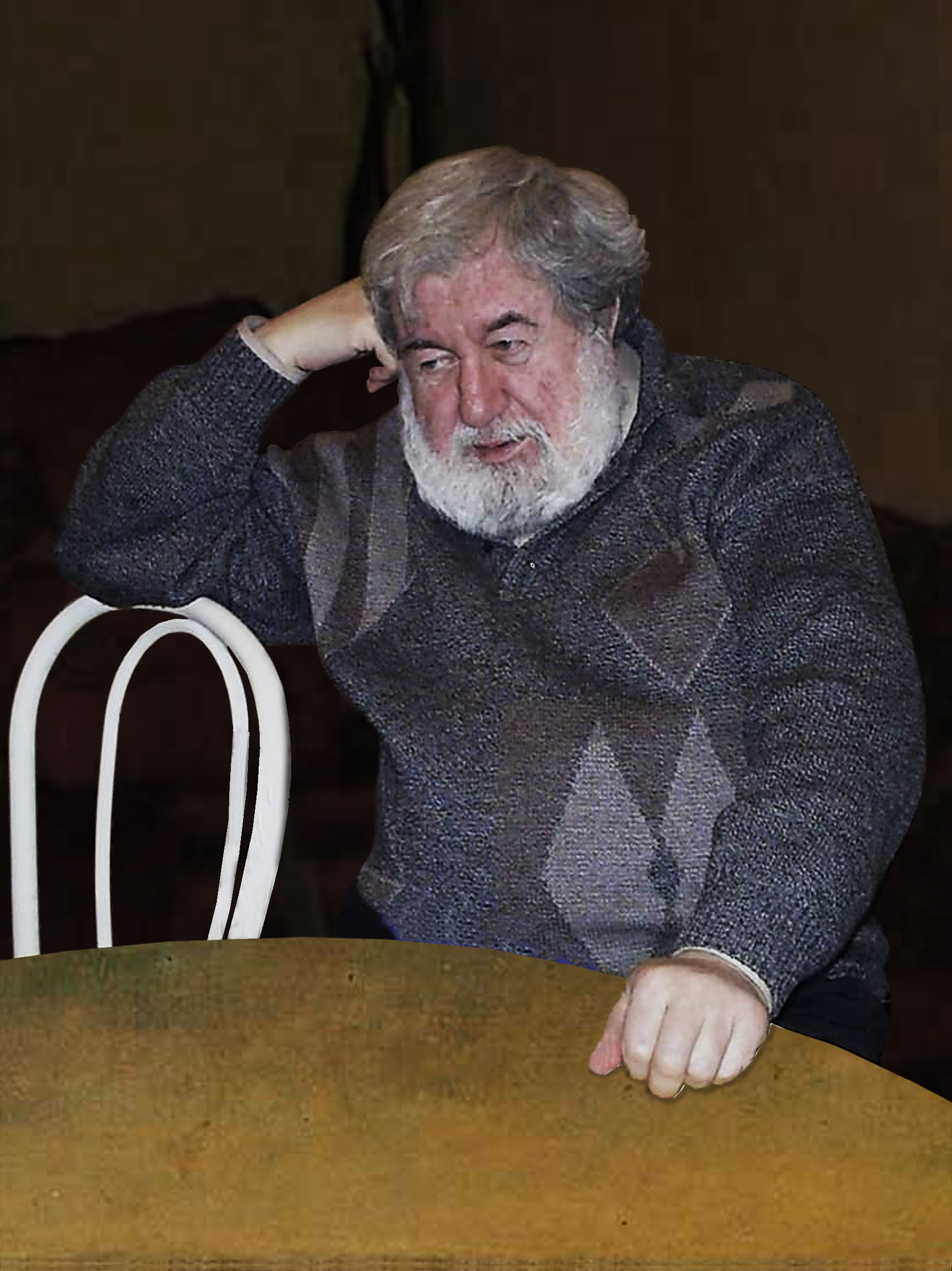 Laszlo Garai Hungarian scholar of theoretical, social and economic psychology. The photo is made at LG's 75th anniversary party while listening to an eulogy (Nice, France, 2010)